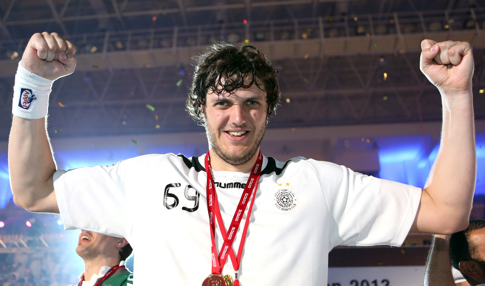 Al Sadd's Estonian professional handball player Mait Patrail celebrates after winning the Emir's Cup in Doha. Pic by Mohan